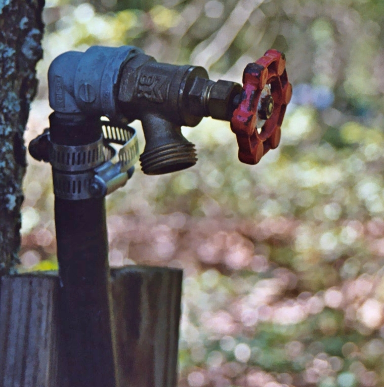 Photograph of a water spigot, taken by Rmrfstar.